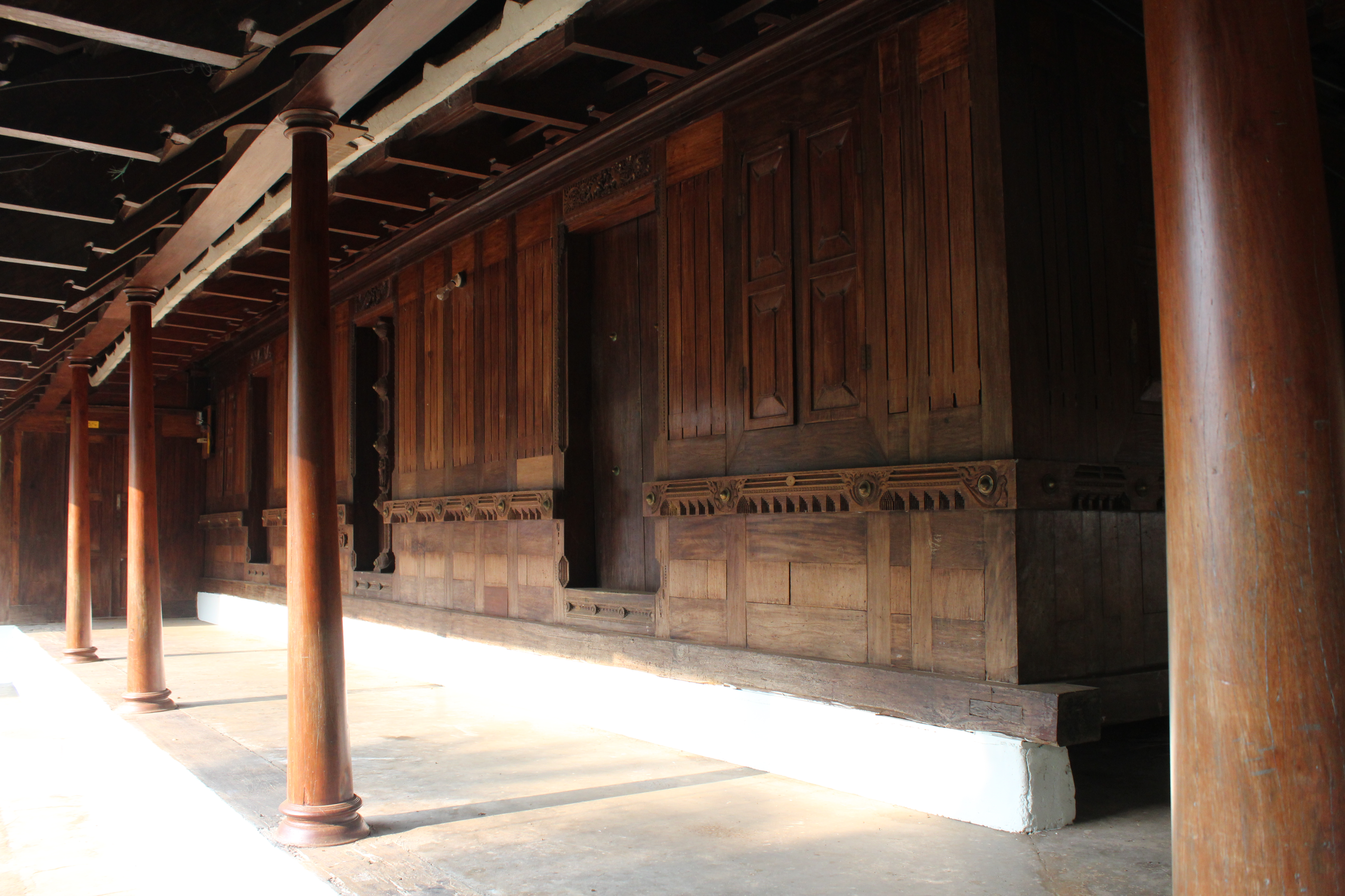 Intricate wood carving & chuttu verandah in Kerala architecture